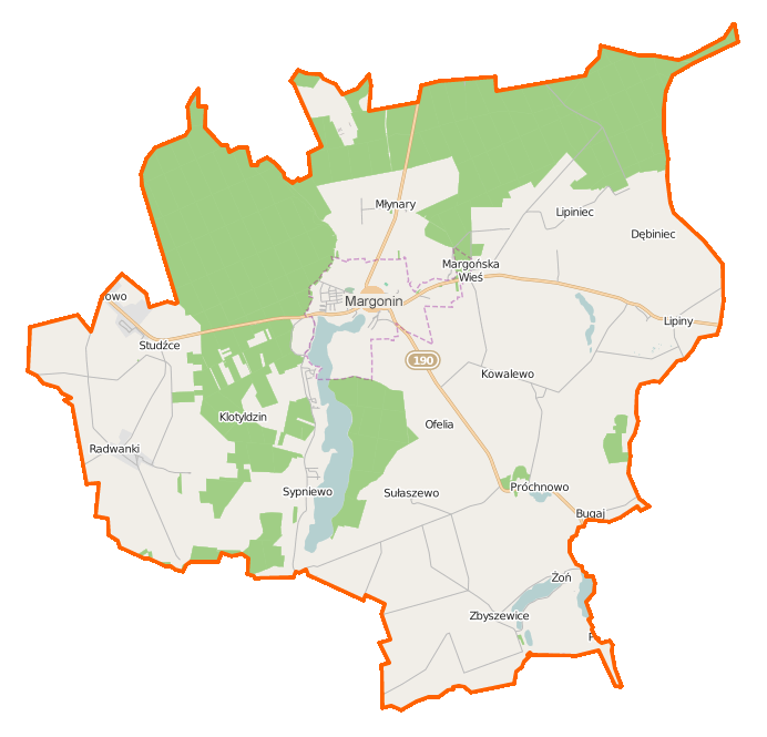 Map of Gmina Margonin, Poland This map of Margonin (gmina) was created from OpenStreetMap project data, collected by the community. This map may be incomplete, and may contain errors. Don't rely solely on it for navigation. Border coordinates53.029216.9797←↕→17.217552.8919